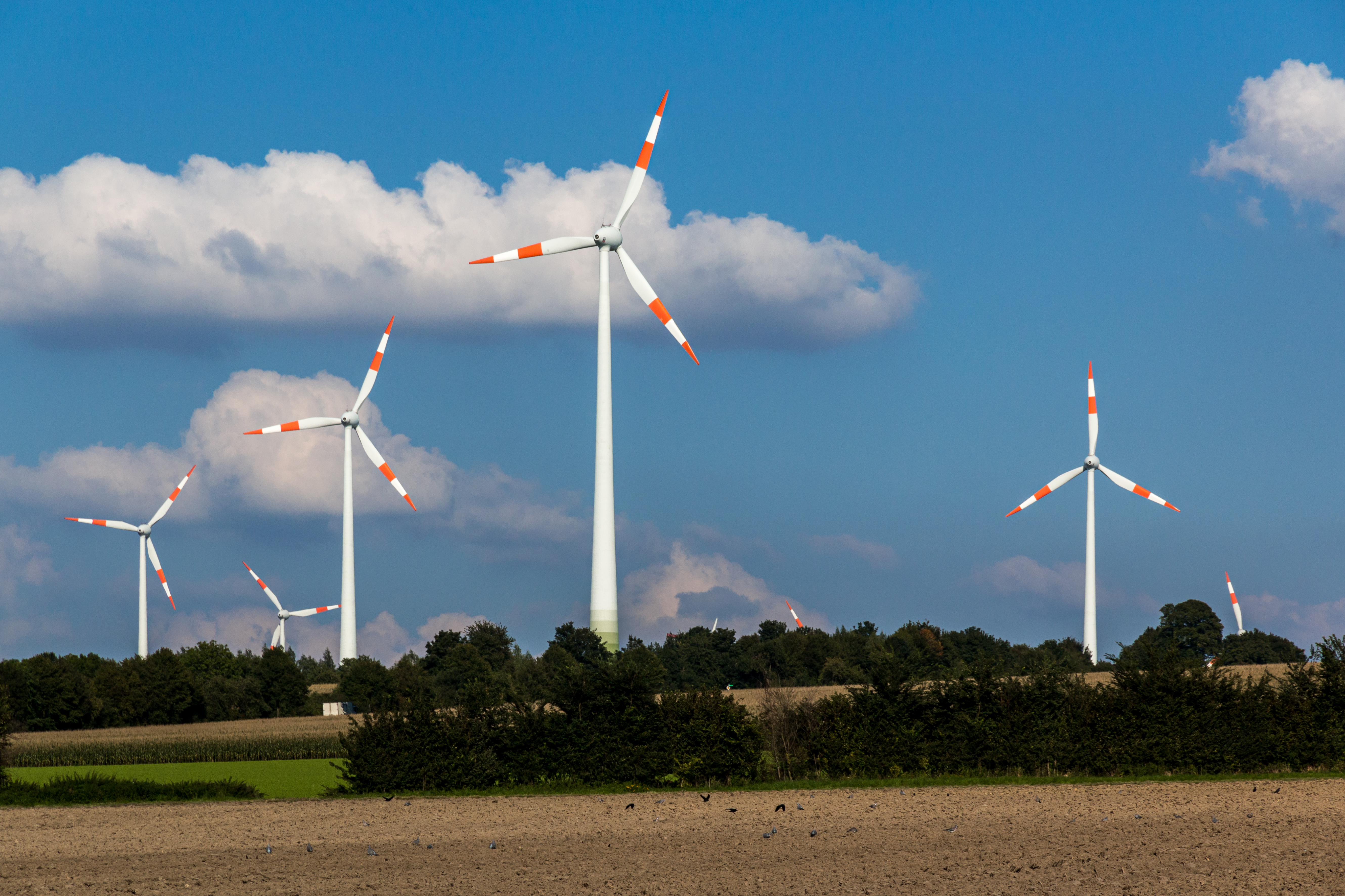 Wind turbines am Schöppinger Berg, Schöppingen, North Rhine-Westphalia, Germany